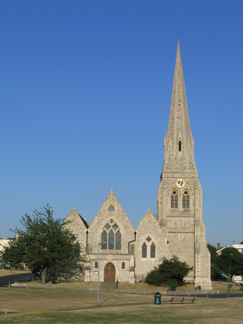 West front of All Saints parish church, Blackheath, London